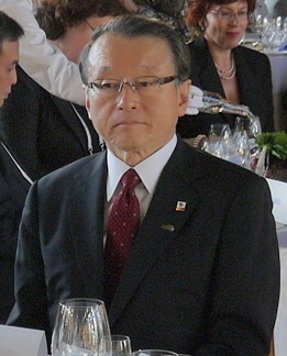 Mr Masaharu Nakagawa, Minister of State for Disaster Management, New Public Commons, Gender Equality and Civil Service Reform, Japan